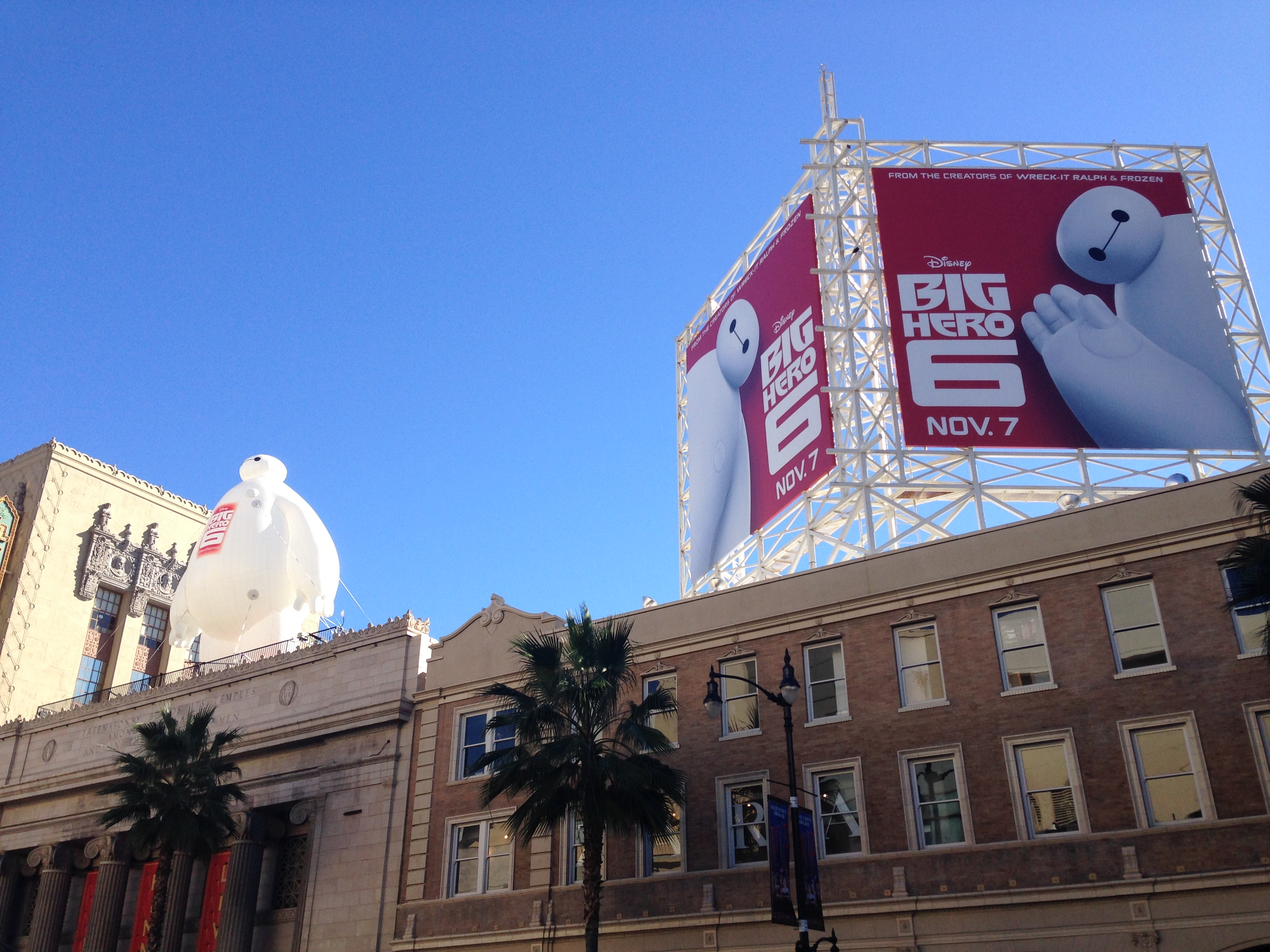 Baymax inflated atop the Hollywood Masonic Temple